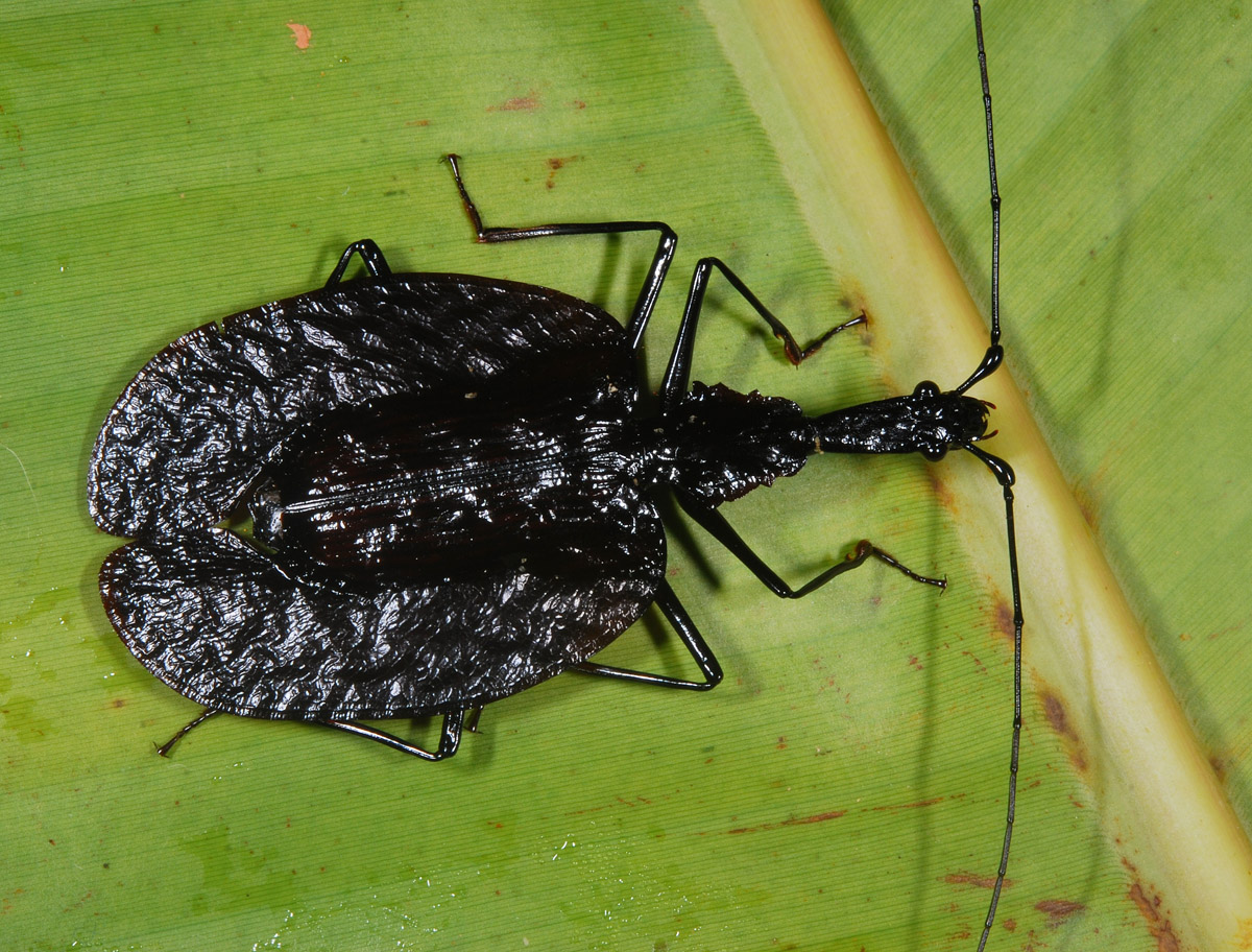 Mormolyce phyllodes, photographed in Taman Negara Endau Rompin, Malaysia